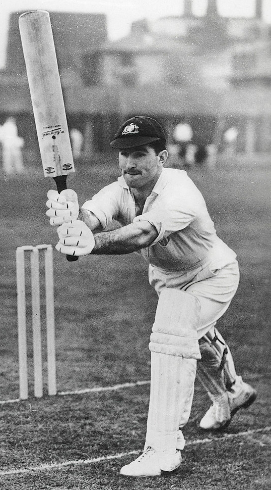 Cricket, 1930's, A picture of CL (Clayvel Lindsay) Badcock, the Australia, Tasmania, and South Australia right-handed batsman, seen here after playing a drive